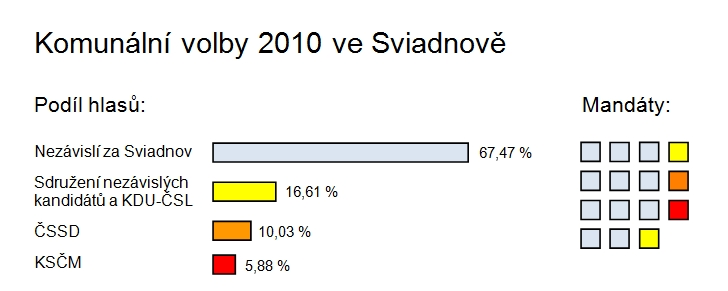 Local elections 2011 in Sviadnov, Czech republic